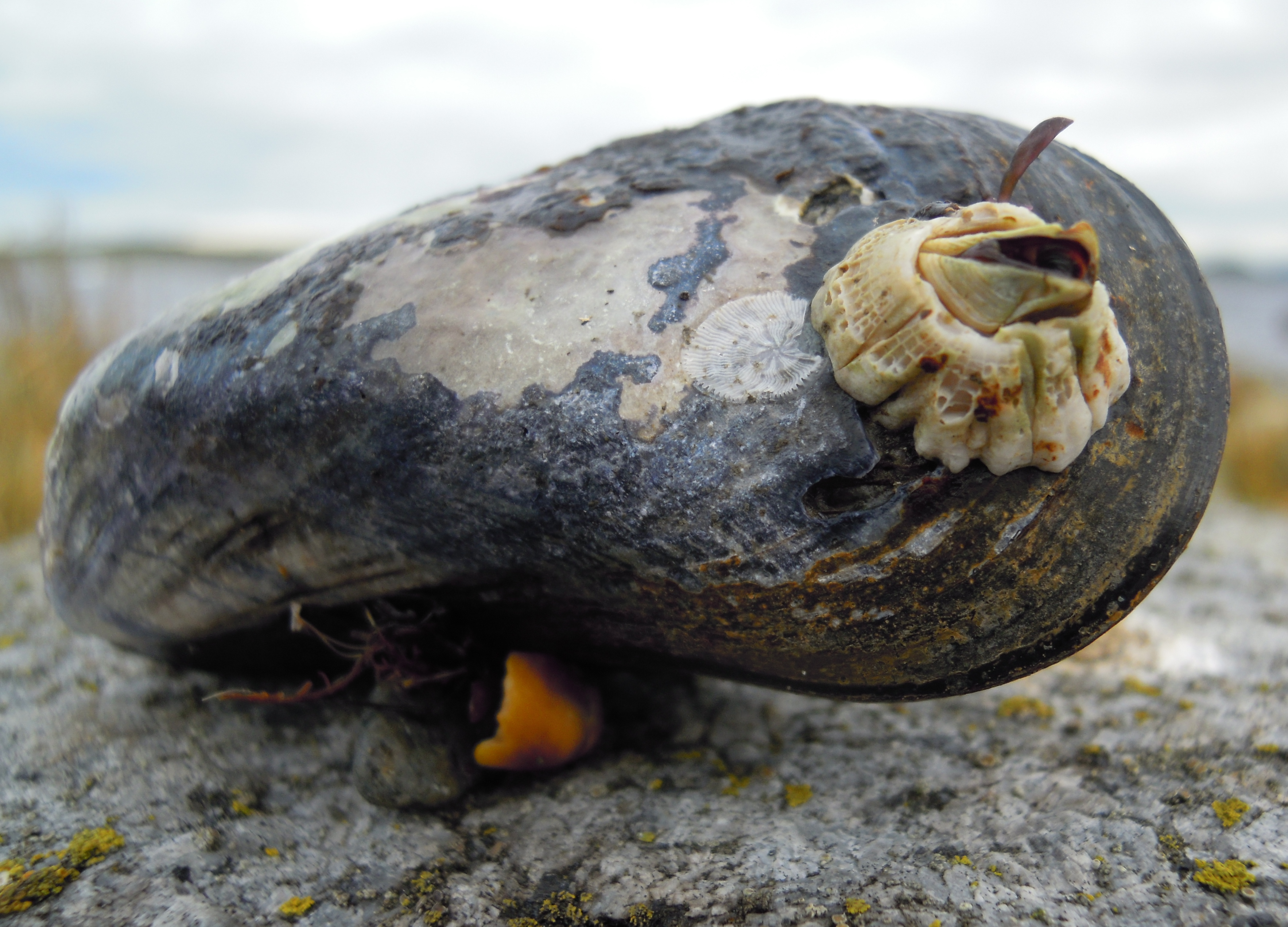 Blue mussel - Mytilus edulis and a Balanidae. Larvik, Norway. You are free to use this picture outside Wikipedia (see license), as long as you write: Photo: Arnstein Rønning